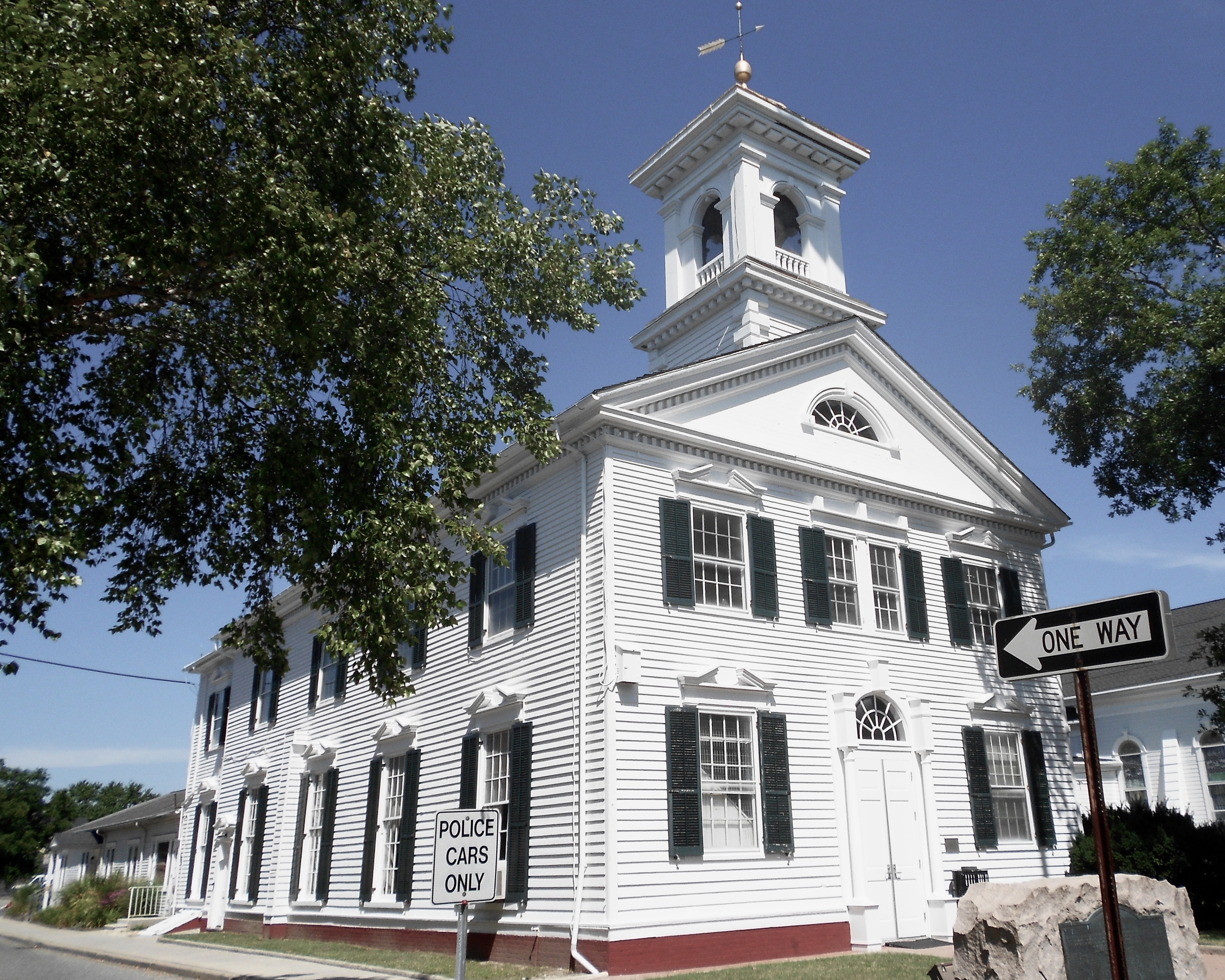 The old courthouse in the settlement of Cape May Courthouse, Cape May County, New Jersey